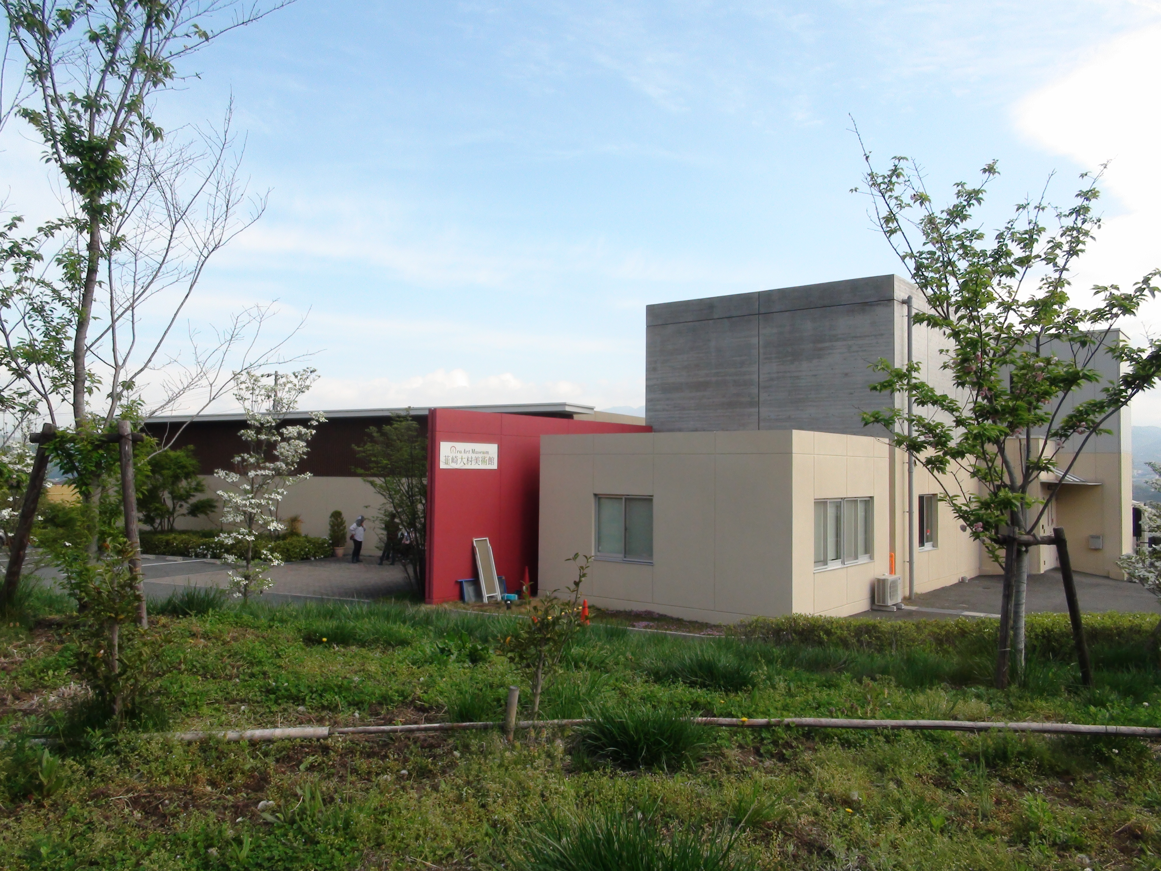 Nirasaki-Omura-Artmuseum